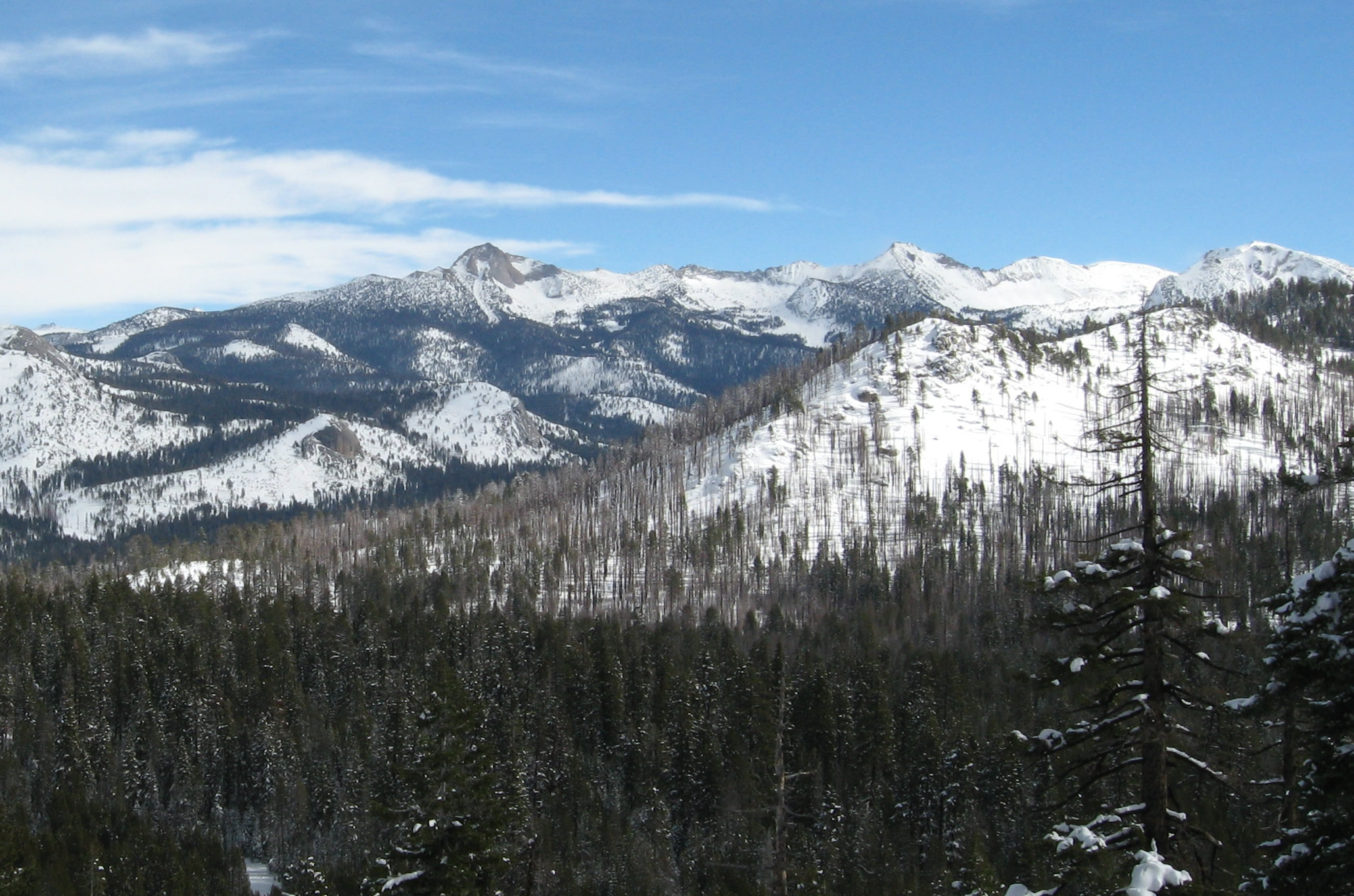 The Clark Range of the Sierra Nevada, seen from the west side under a coat of winter snow. Prominent peaks, from left to right, are Mount Clark, Gray Peak, and Red Peak. The bump on Clark's left side is Quartzite Peak.